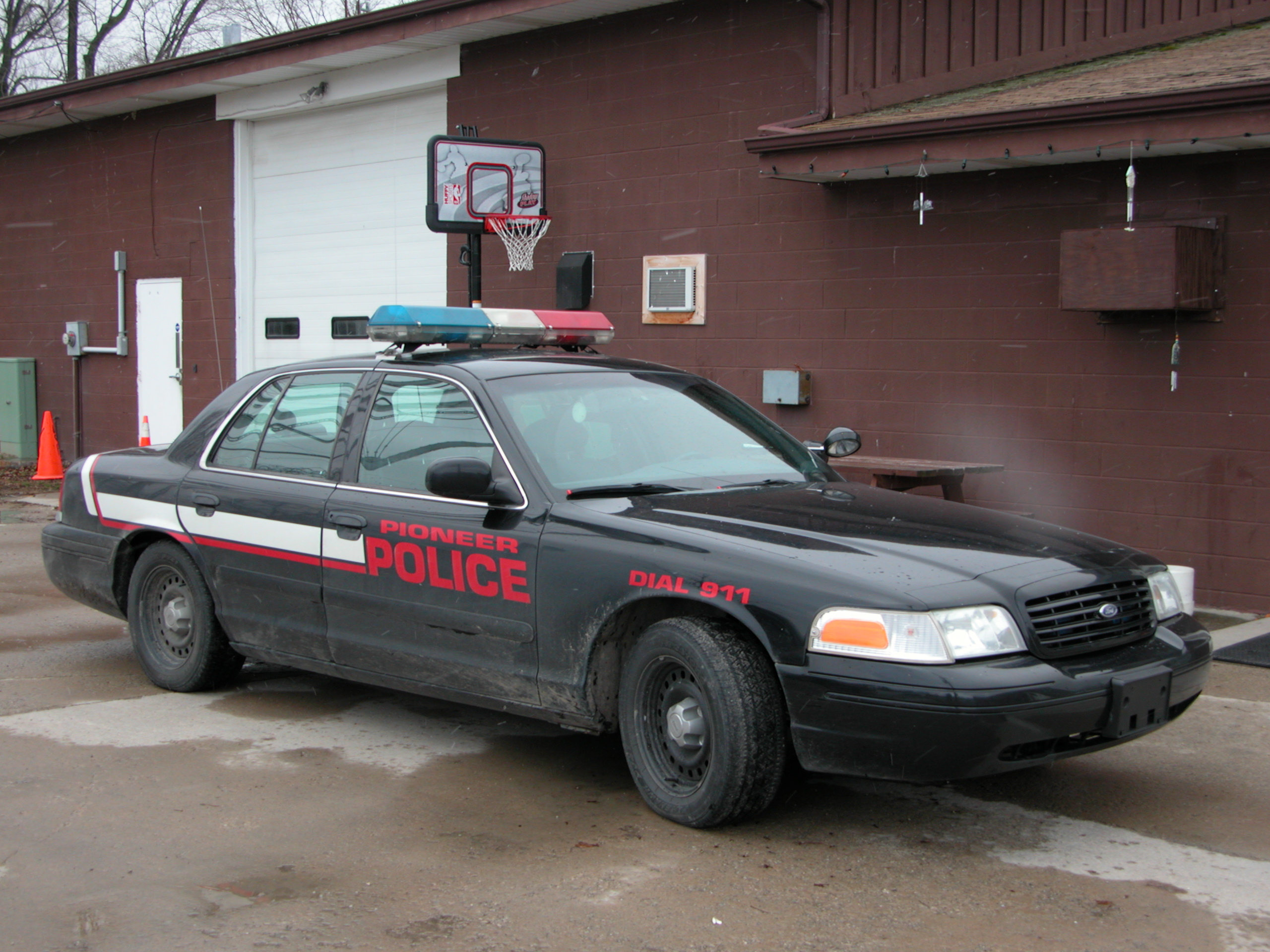 A police cruiser in Pioneer, Ohio.